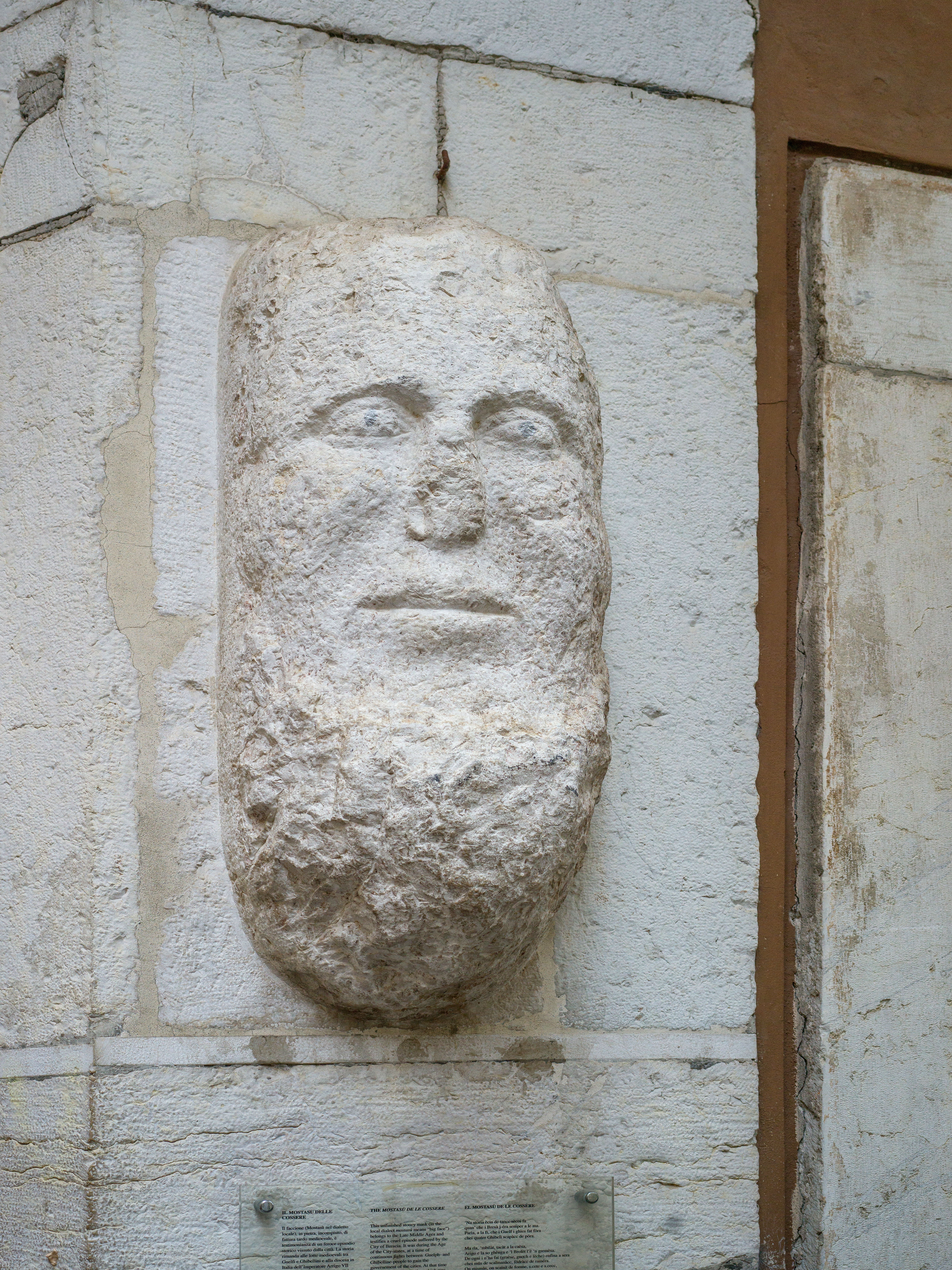 Mostasù dèle Cosére in Brescia.